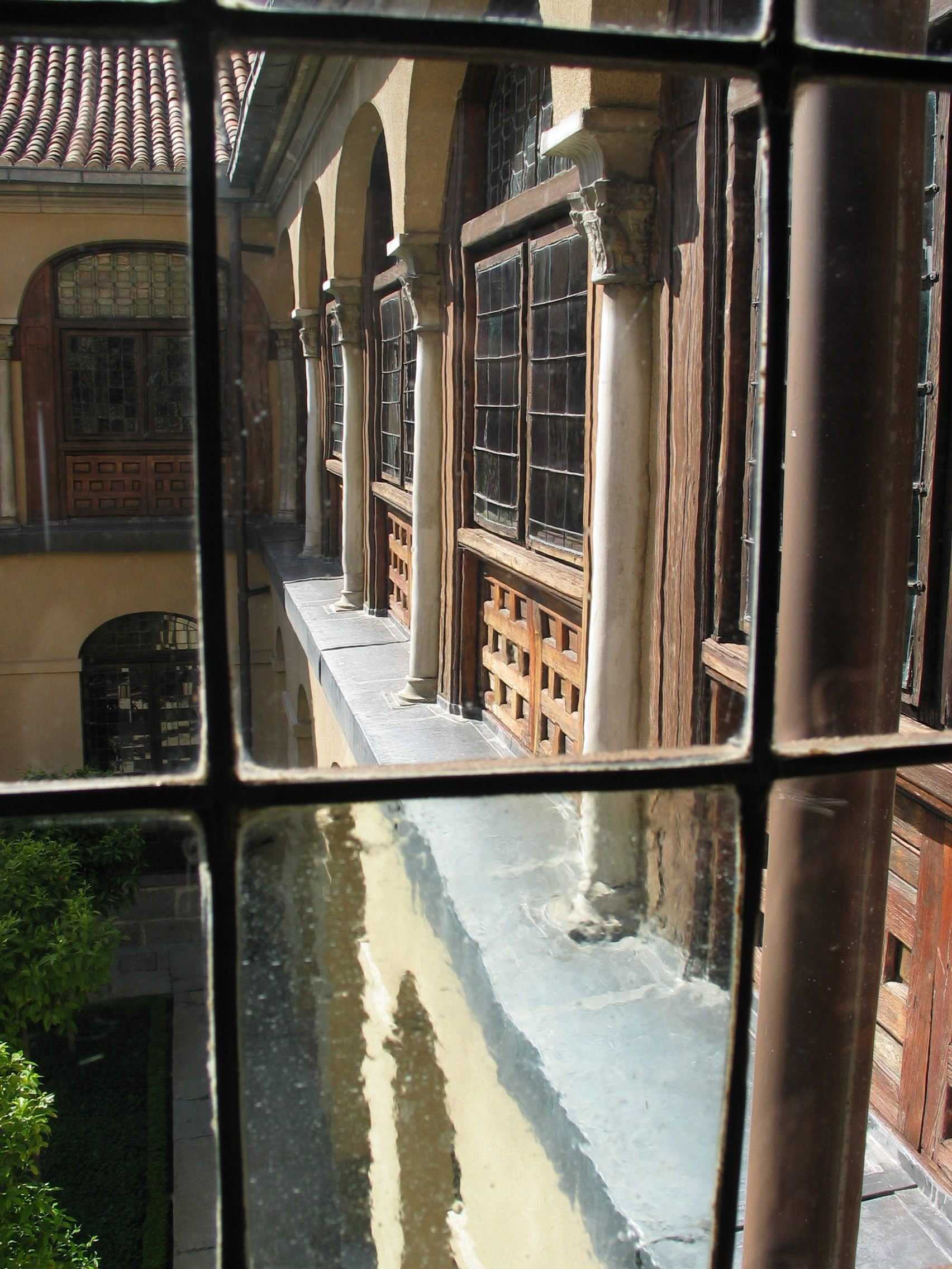 (El Monasterio de las Descalzas Reales cloister view through window).